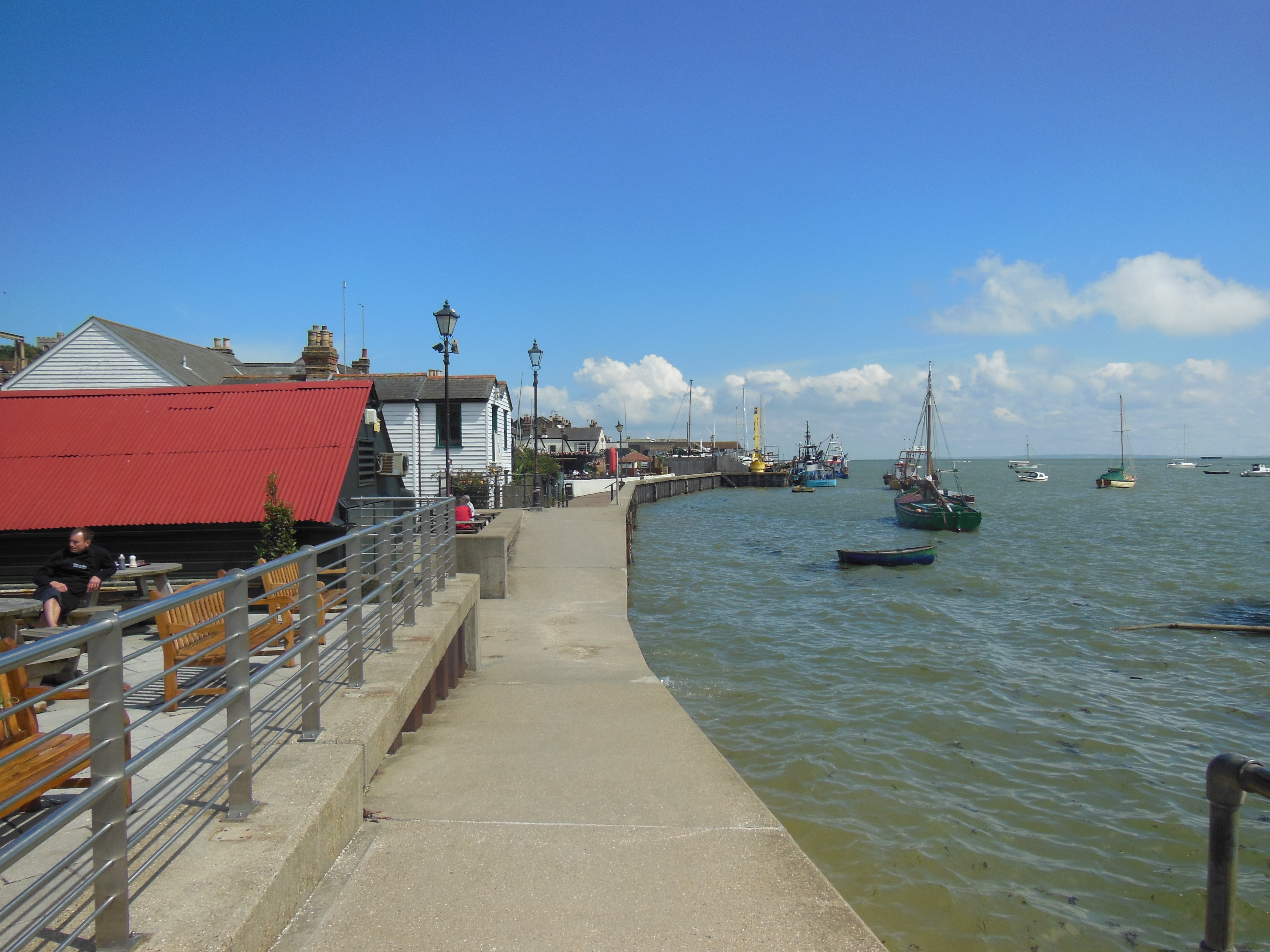 The waterfront of Old Leigh at Leigh-on-Sea in the English county of Essex, at about high tide. For more information, see Wikipedia article Leigh-on-Sea.